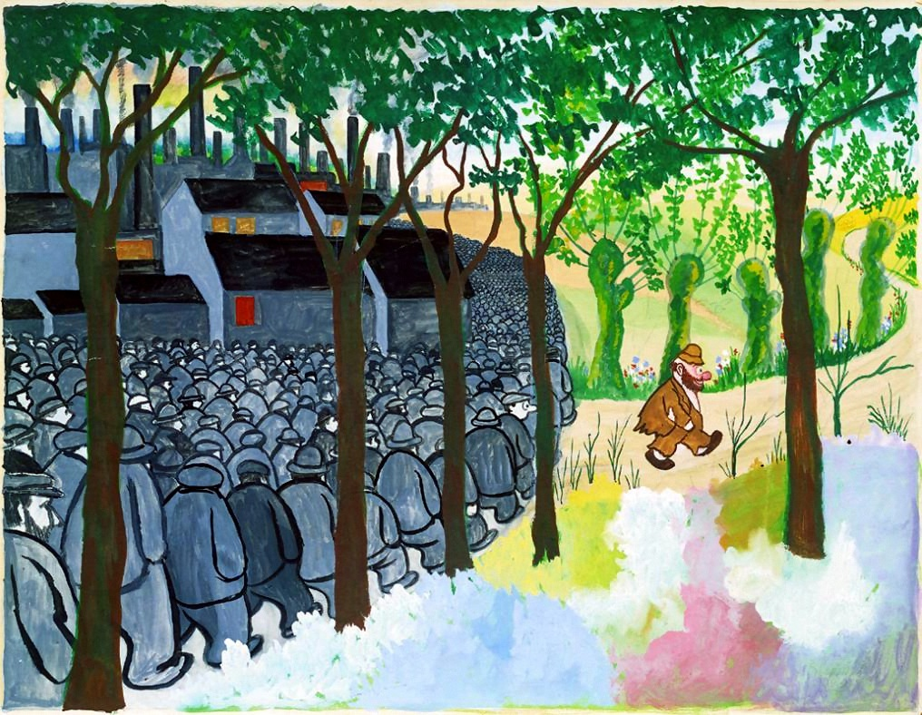 "Back to nature" is an watercolor painting by Danish artist Storm P.